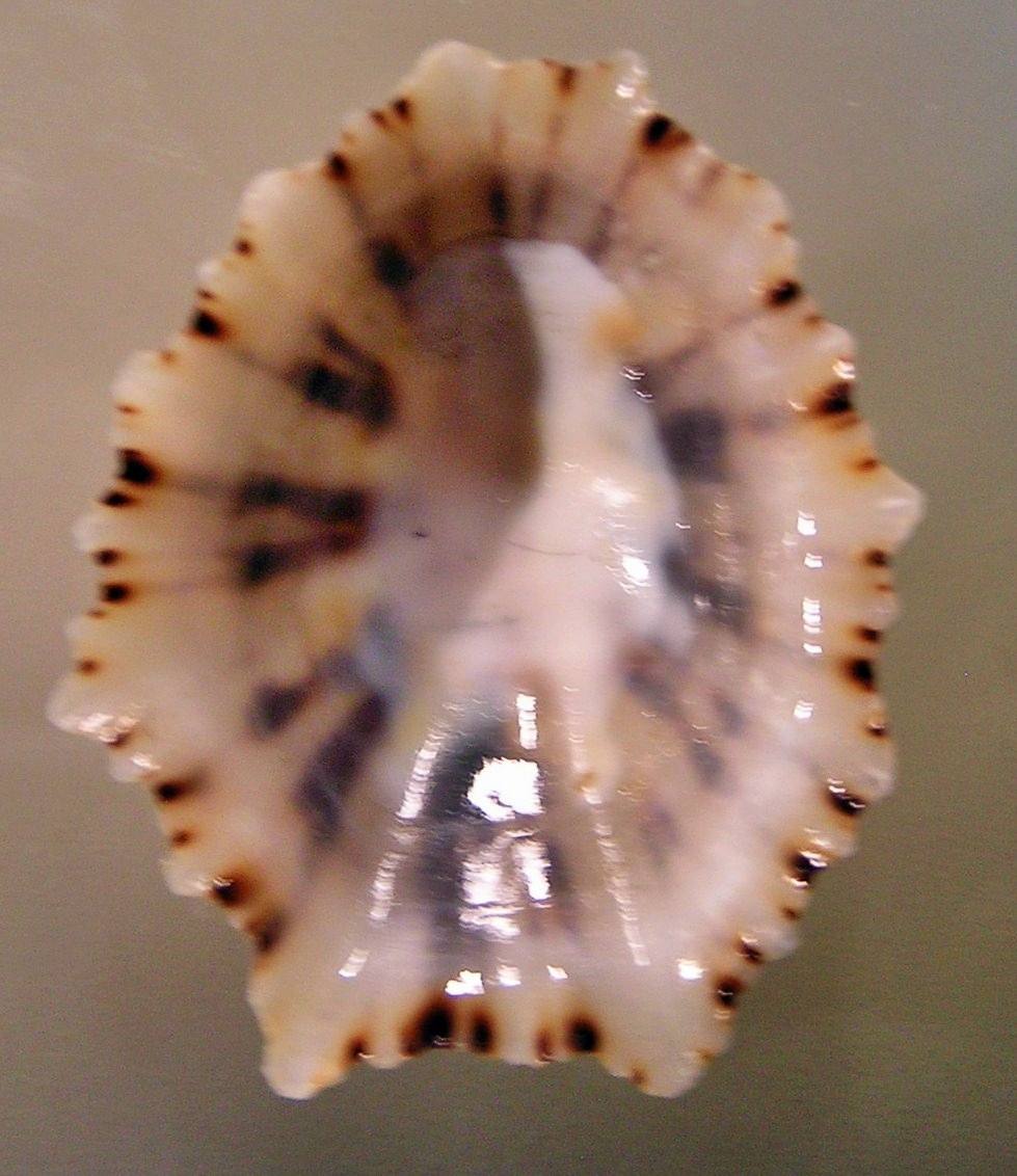 Patella depressa Pennant, 1777, a limpet from the family Patellidae; Portugal